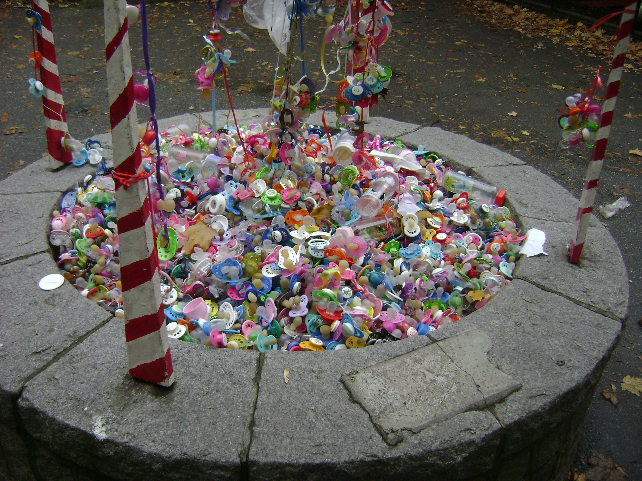 Sweden. Stockholm. Djurgården. Open air museum